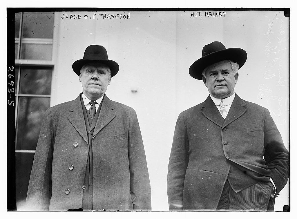 Bain News Service,, publisher. Judge O. P. Thompson and H.T. Rainey circa 1913 [no date recorded on caption card] 1 negative : glass ; 5 x 7 in. or smaller. Notes: Title from unverified data provided by the Bain News Service on the negatives or caption cards. Forms part of: George Grantham Bain Collection (Library of Congress). Format: Glass negatives. Repository: Library of Congress, Prints and Photographs Division, Washington, D.C. 20540 USA, General information about the Bain Collection is available at Persistent URL: Call Number: LC-B2- 2693-5